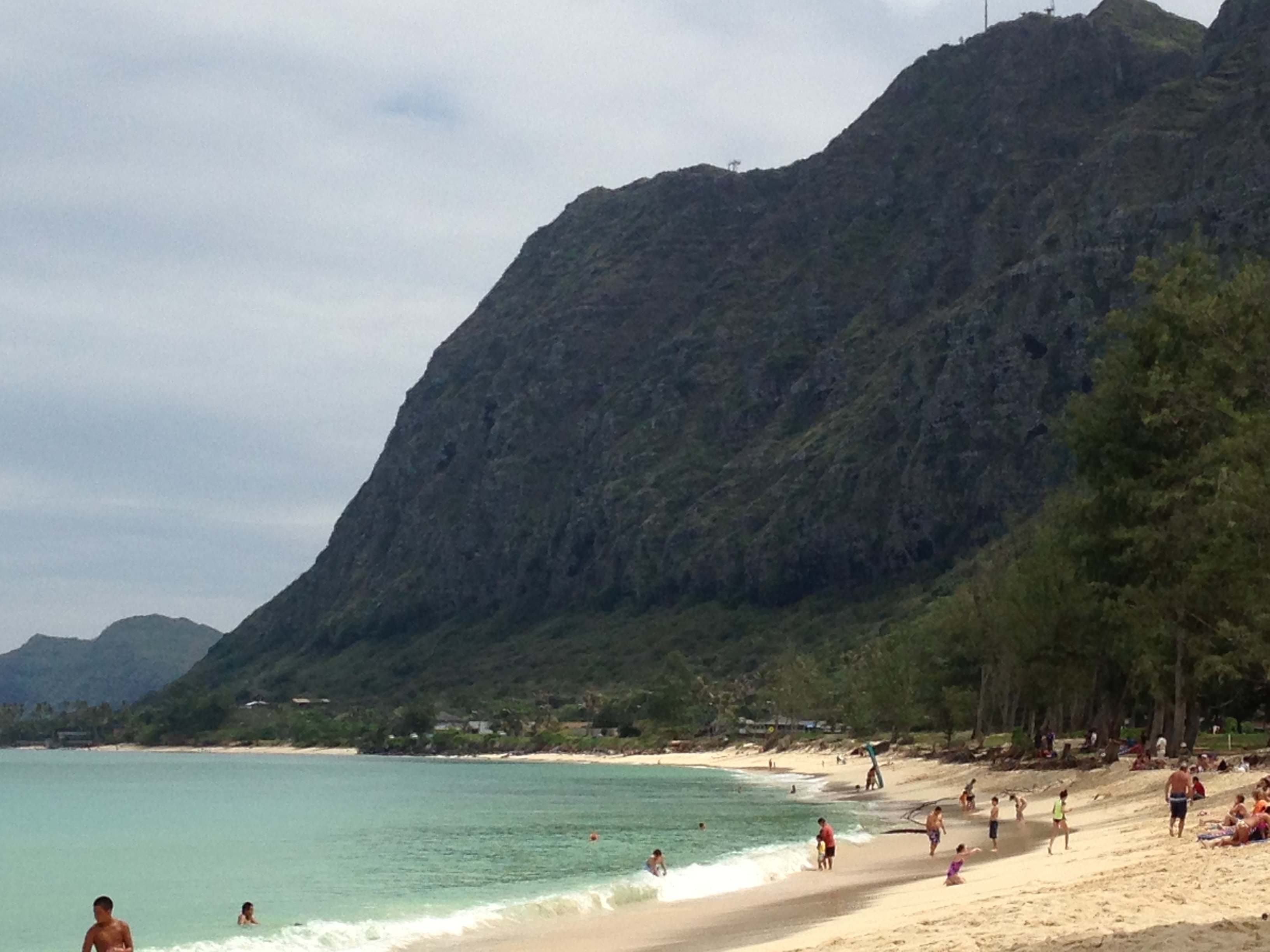 Waimanlo Beach itself, including 'da Bend' (looking south towards Makapu'u on O'ahu's windward side)